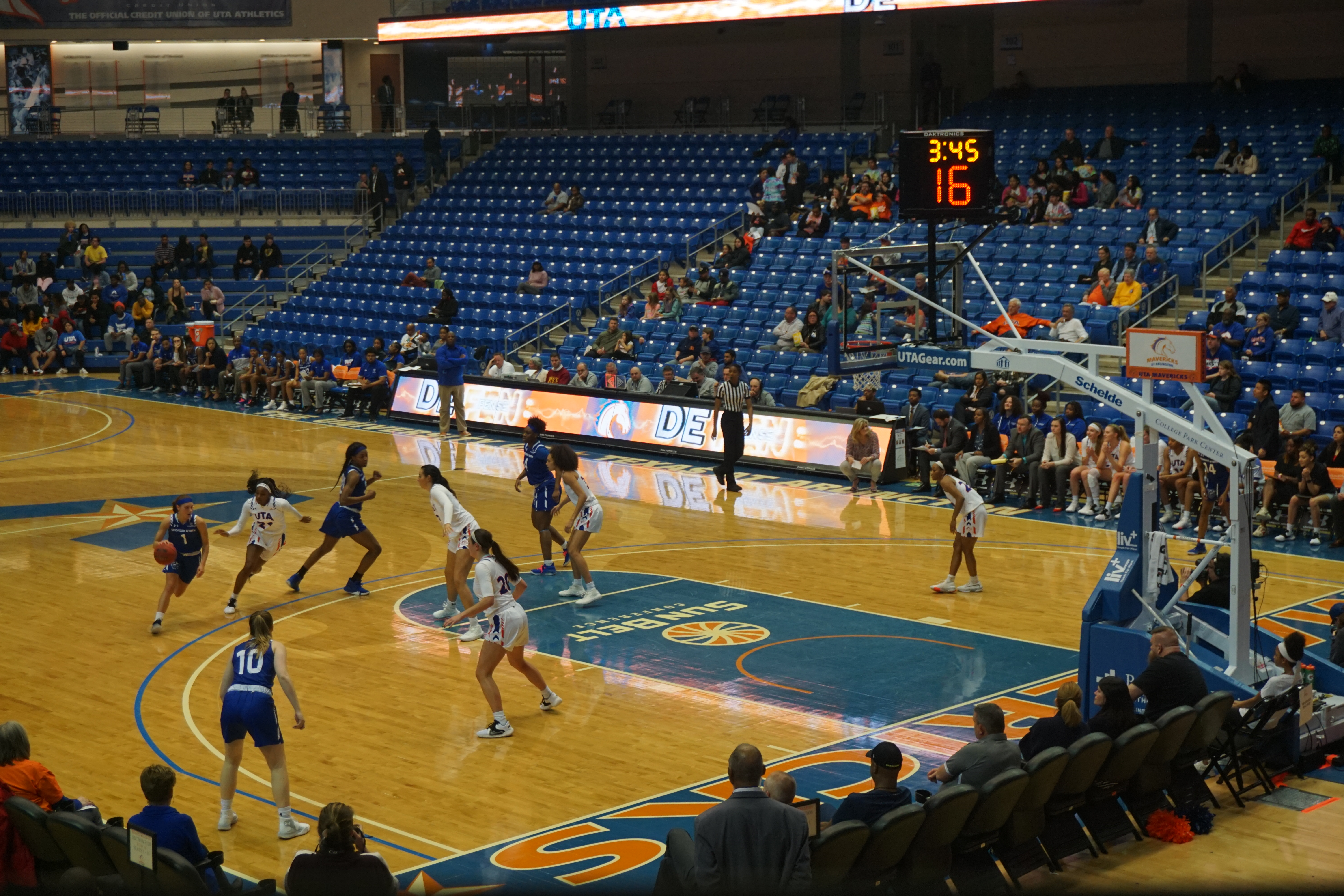 In-game action during the Georgia State Panthers vs. UT Arlington Mavericks women's basketball game at College Park Center in Arlington, Texas (United States). UT Arlington won 58–32.